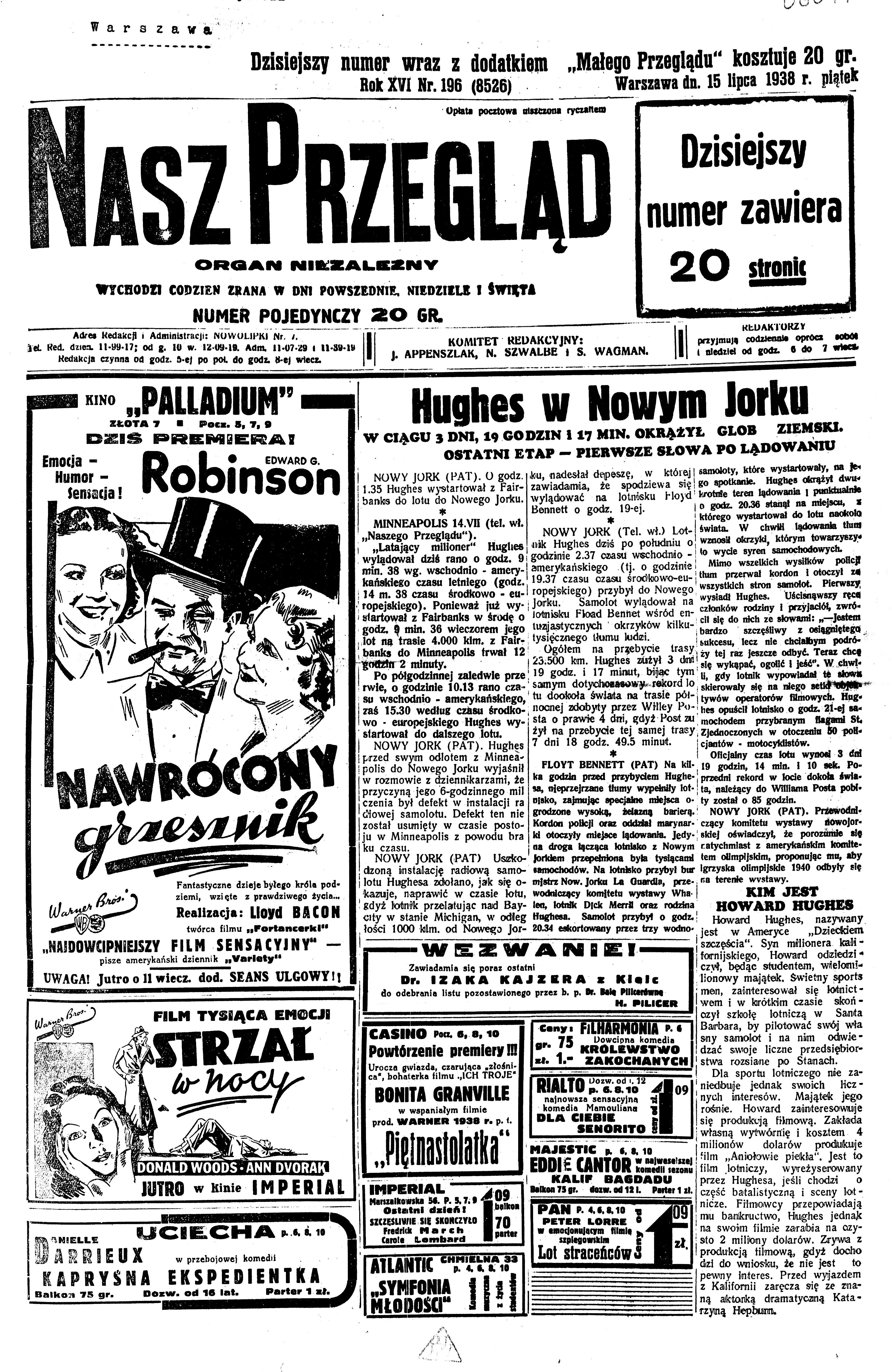 Title page of Nasz Przegląd daily newspaper (15.7.1938)Howard Hughes' flight of 10.7.1938film-ads:en:A Slight Case of Murderen:The Case of the Stuttering Bishop